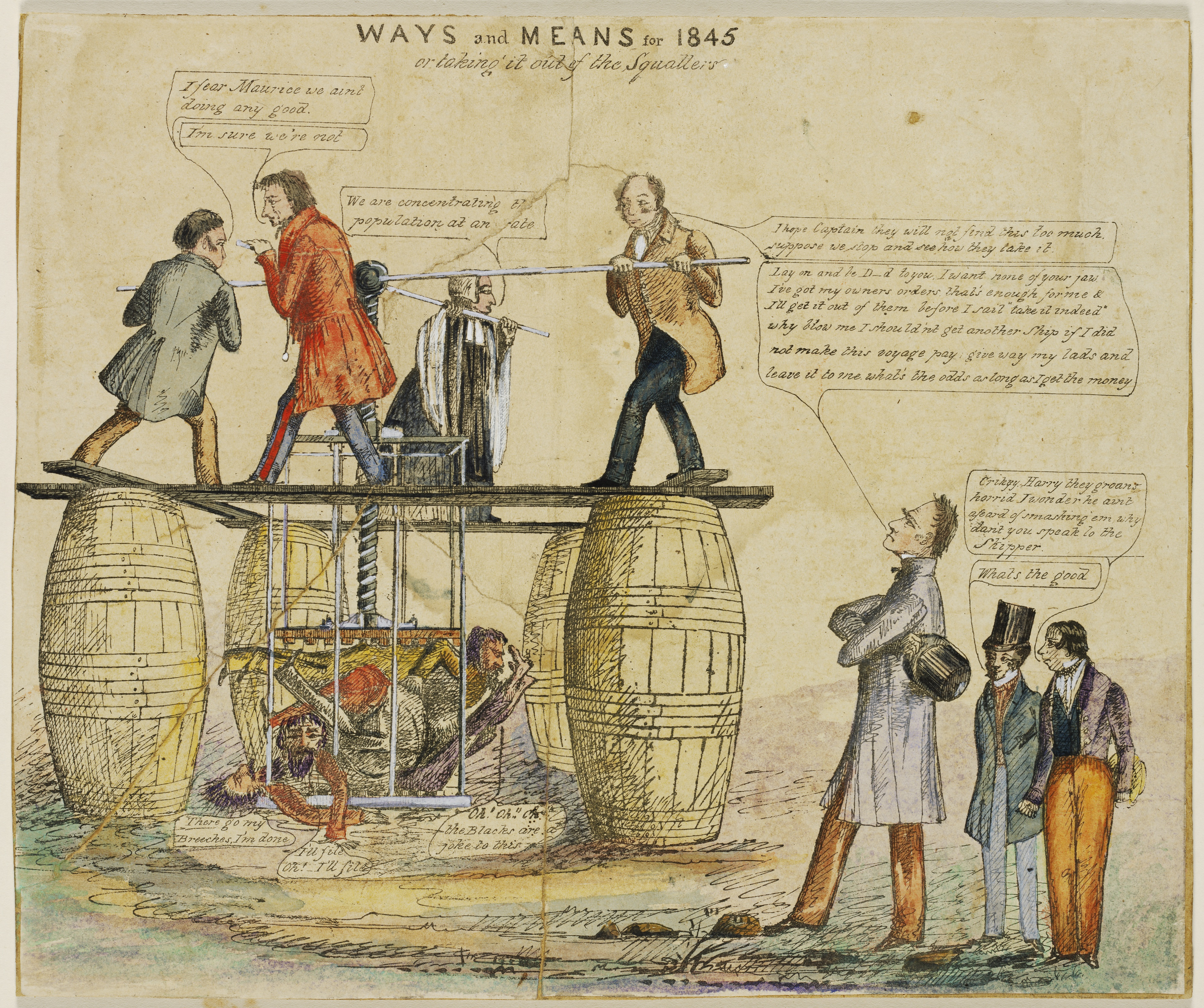 Ways and Means for 1845 or taking it out of the Squatters; lithograph.